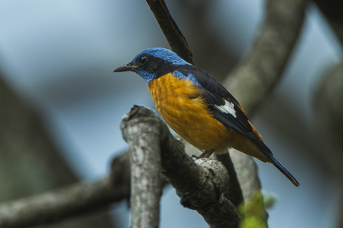 Blue-capped Rock-Thrush - Bhutan_S4E0886